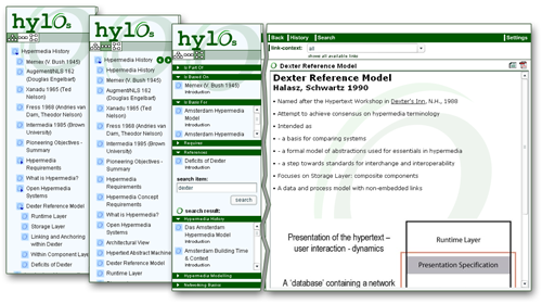 One hylOs frontend